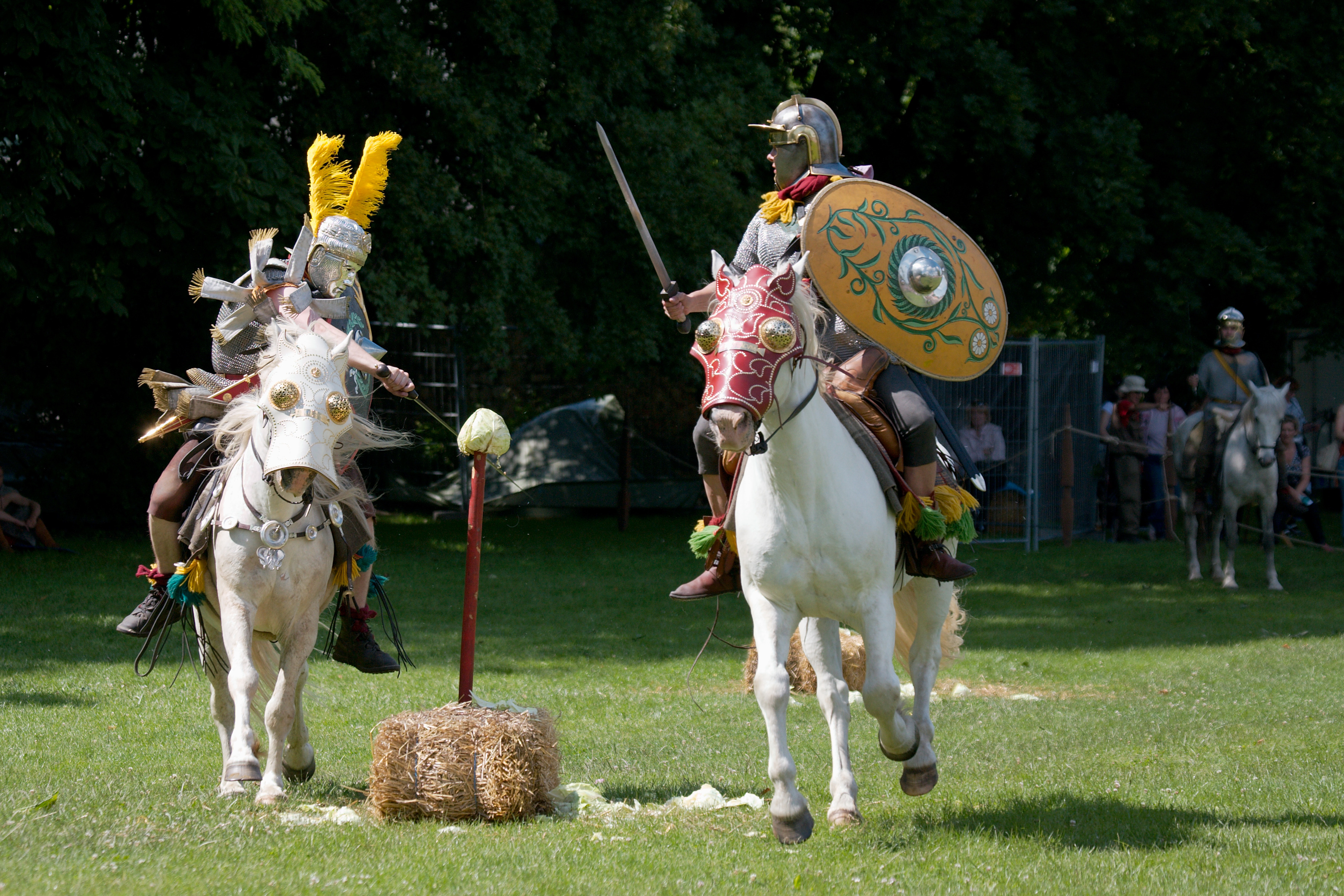 Roman cavalry reenactment show during "Römerfest 2008" in Carnuntum. Show of